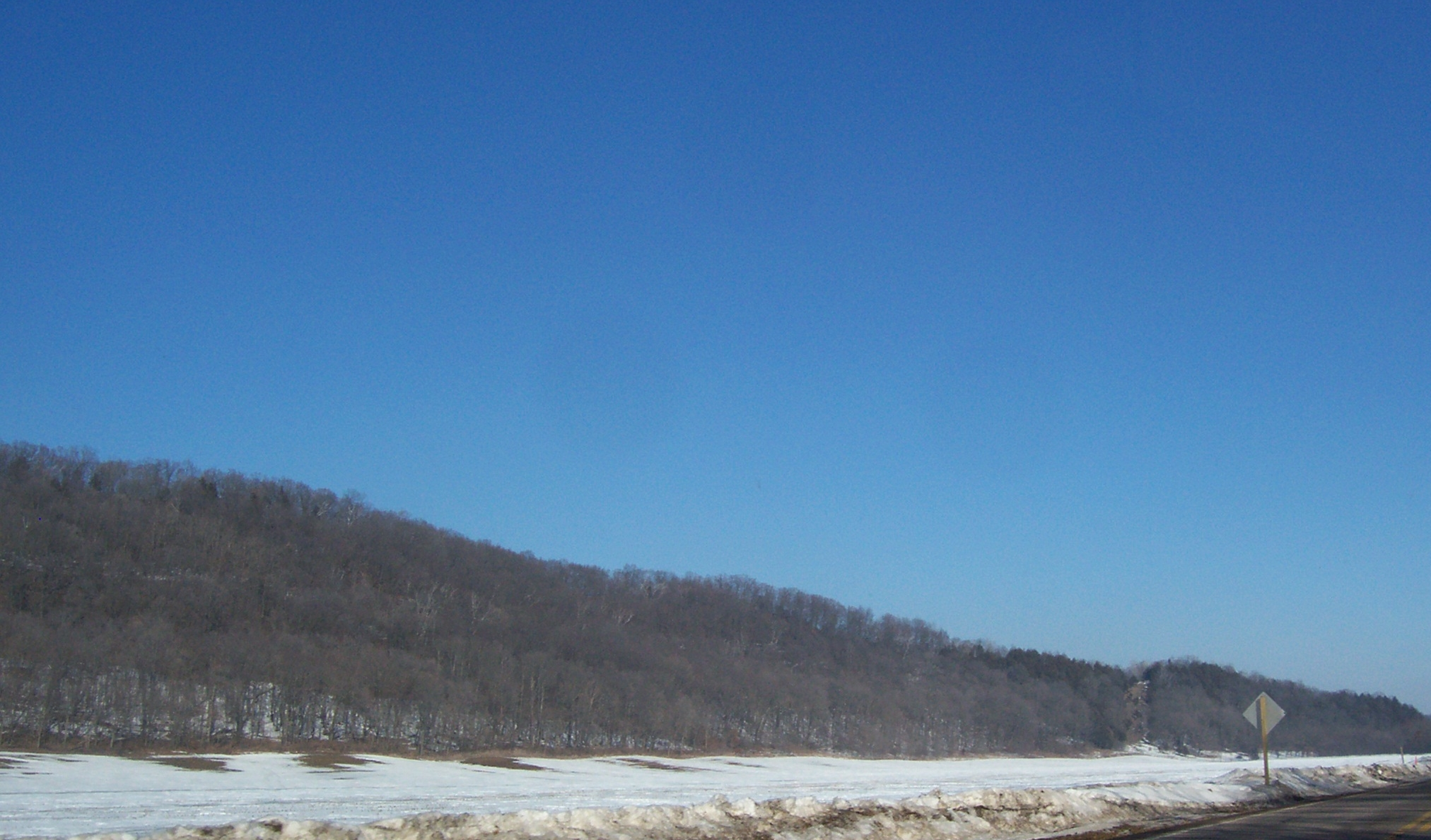 Looking northeast at the Baraboo Range while traveling on Wisconsin Highway 78 in Sauk County, Wisconsin.